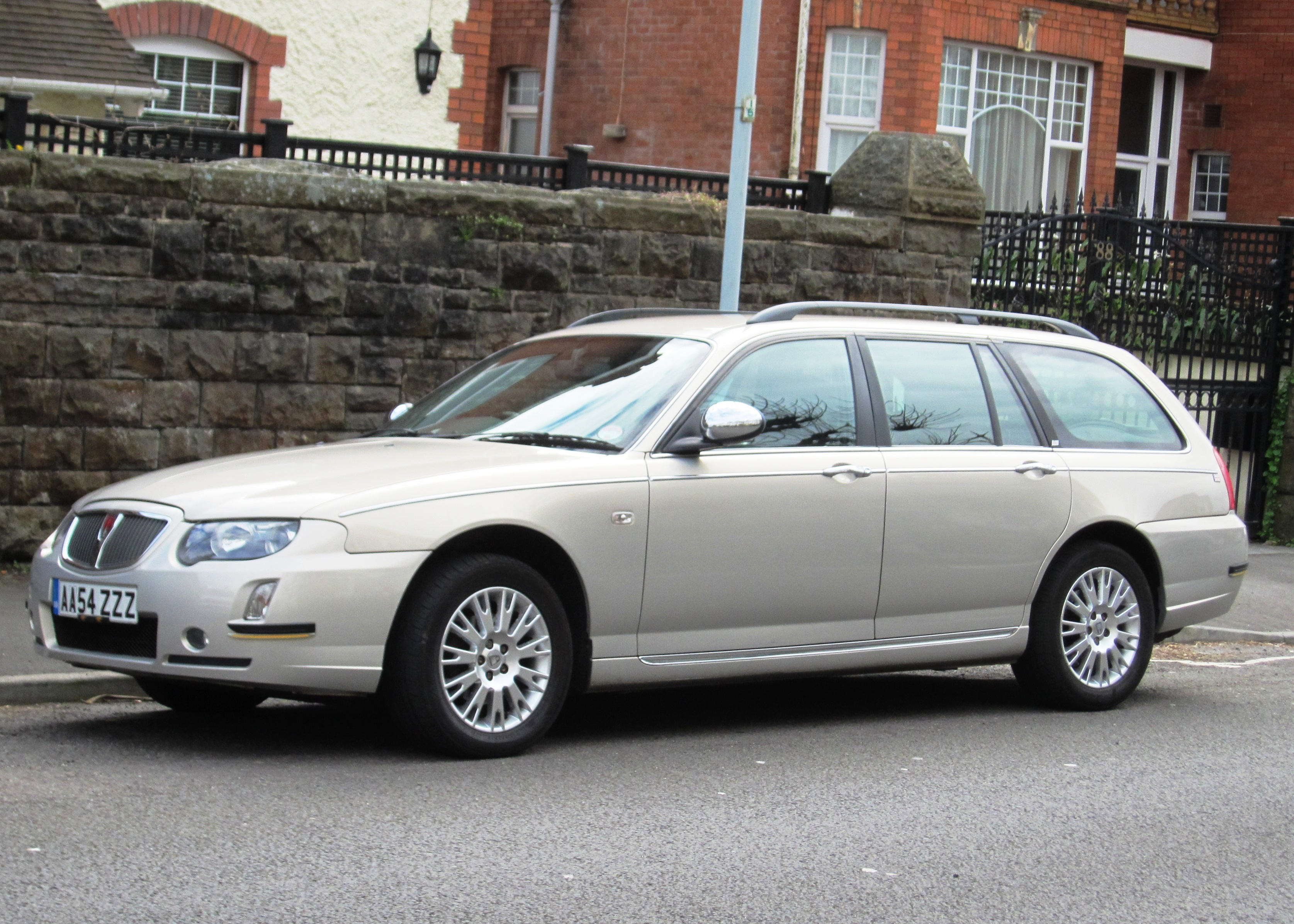 Rover 75 Tourer in Swansea